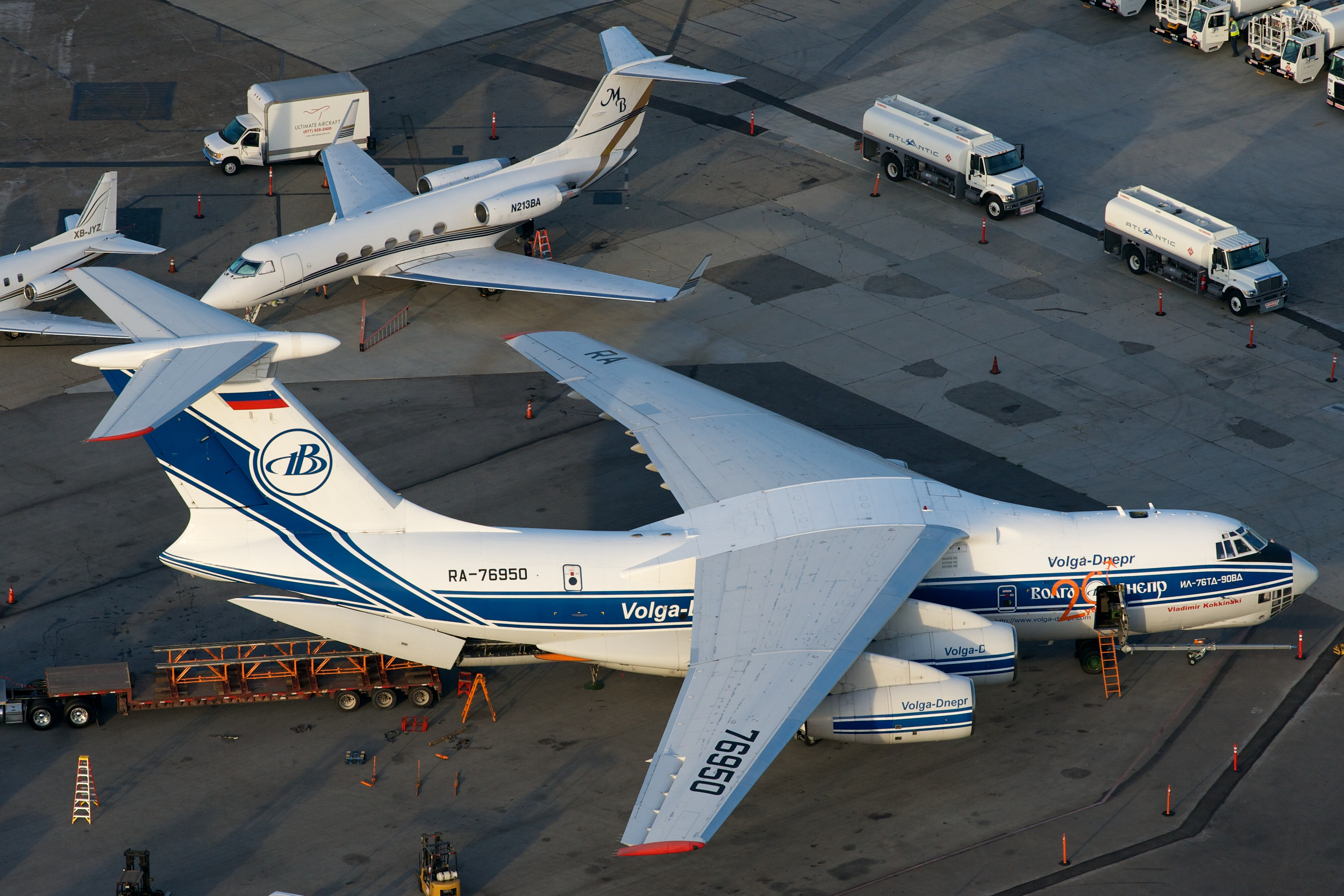 Volga-Dnepr Il-76TD-90VD (RA-76950) at Los Angeles International Airport